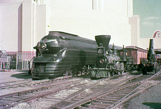 Pennsylvania Railroad K4s Pacific #3768 in its one-off streamlined casing, as exhibited at the New York World's Fair 1939-1940.